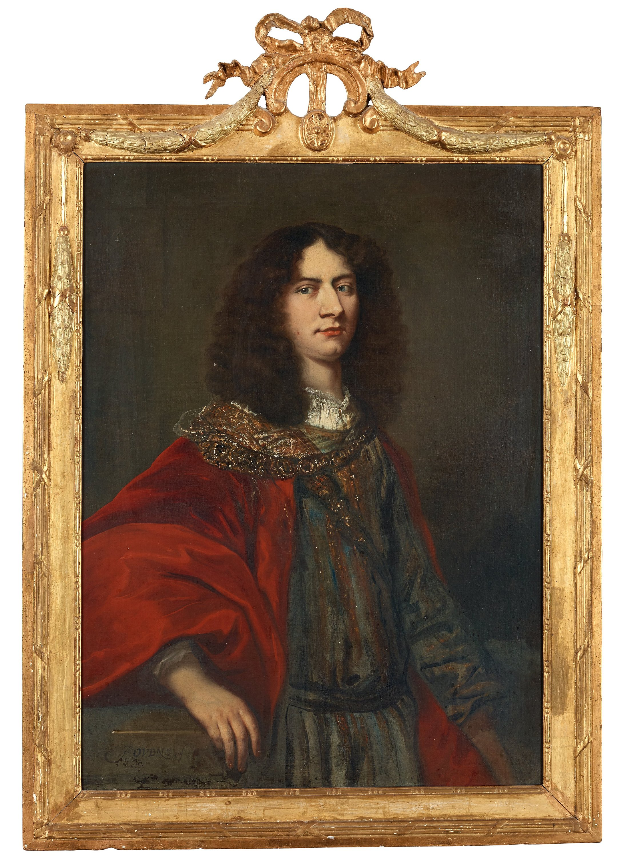 Baron Göran Rosenhane, 1649–1677